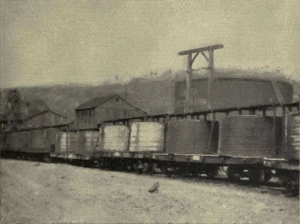 Wooden Car Tanks for crude oil transportation by railroad. Design by James and Amos Densmore aus Meadville, Pennsylvania, U.S. Patent No 53,794 for Improved Car for Transporting Petroleum, 10. April 1866. Can anyone read the white letters on the big storage tank in the background? LE????? FARM